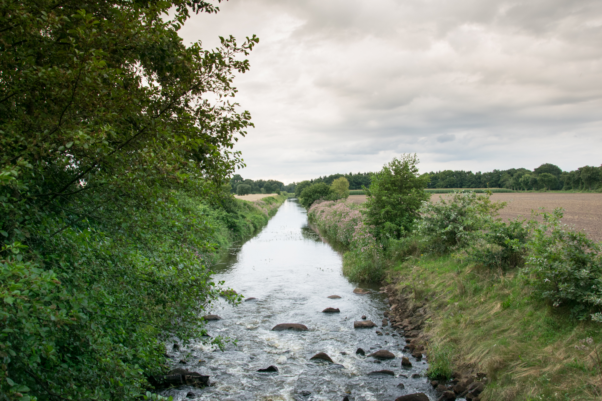 The River Lethe near Tungeln, Germany